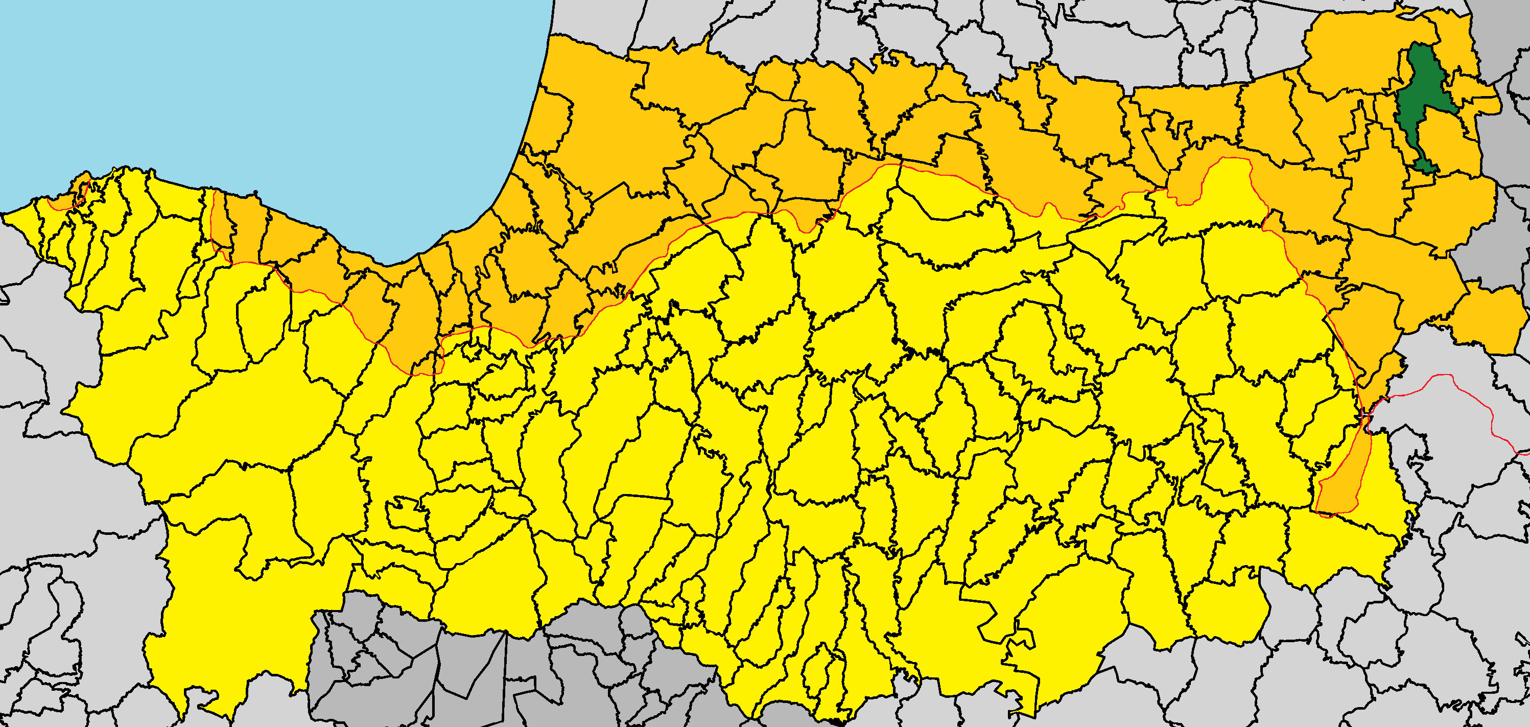 Epicho in Nicosia District (de jure).